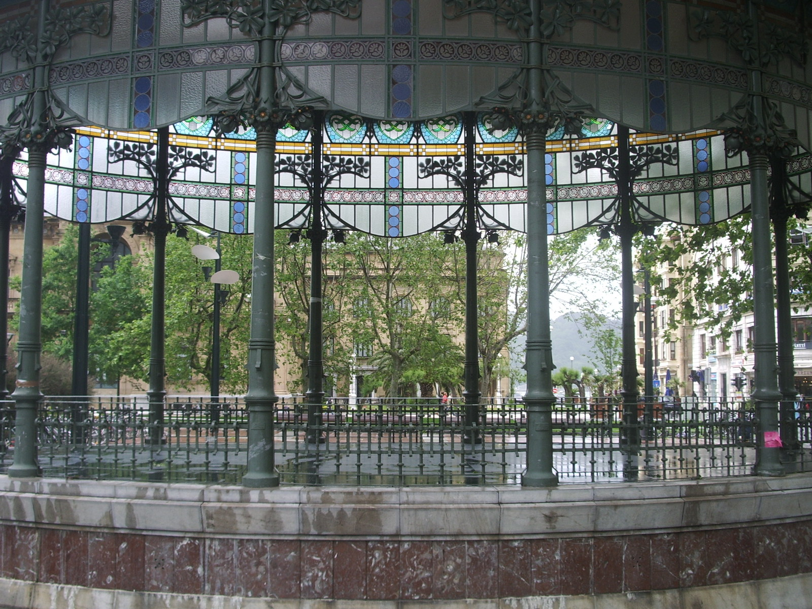 Kiosk in the Boulevard, Art Nouveau style (San Sebastian, Basque Country)